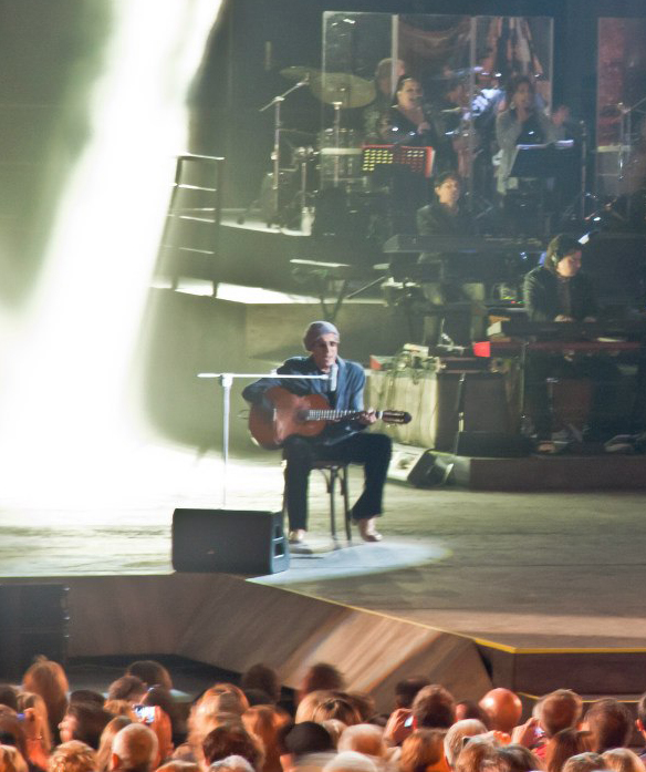 Adriano Celentano. Live in VERONA